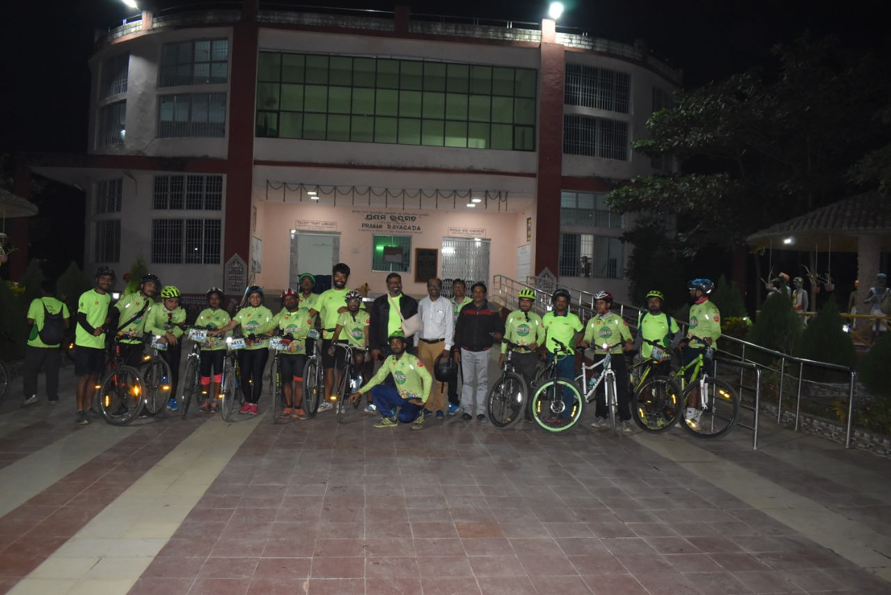 Tour De Kalinga cyclists at Rayagada